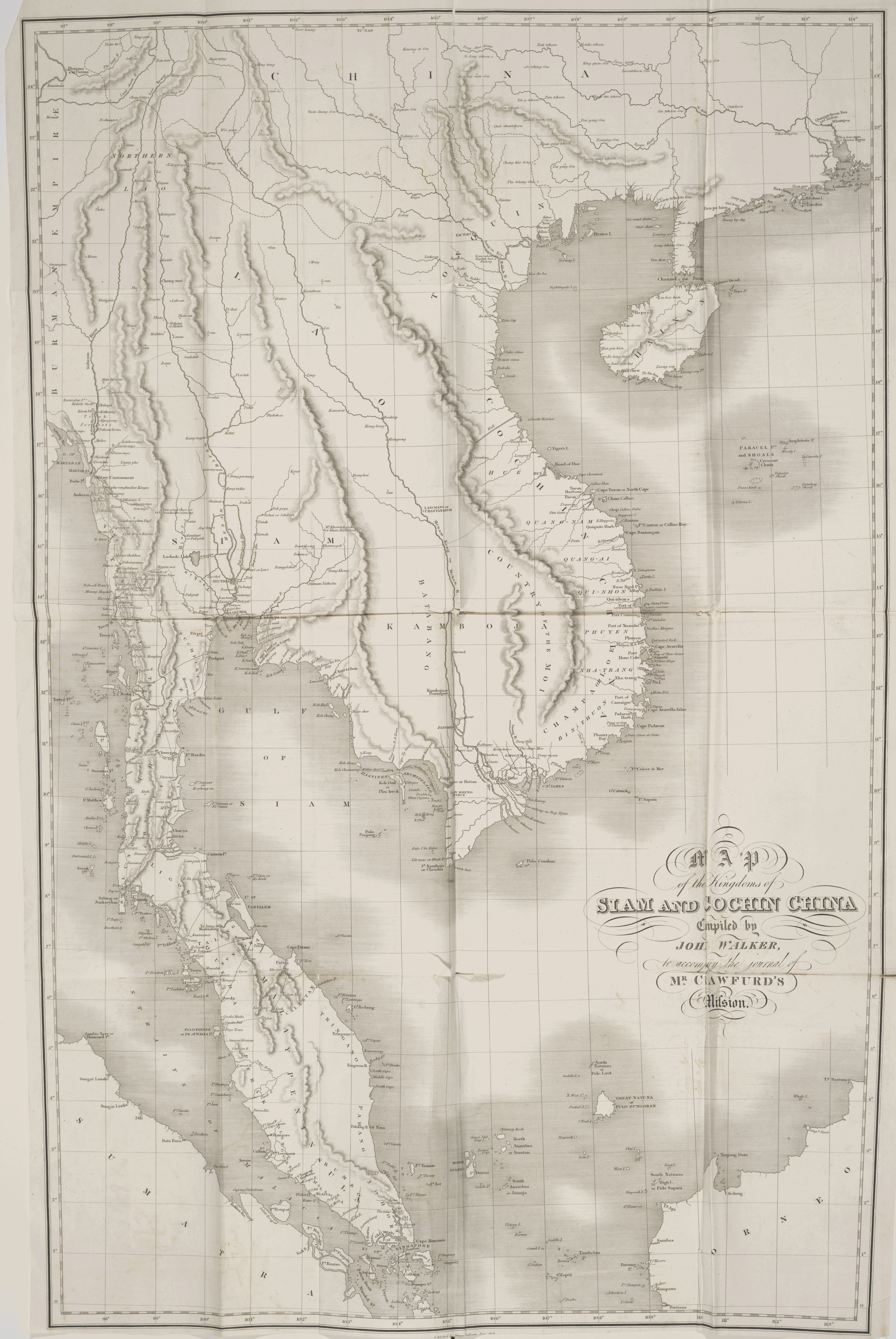 Map of the Kindoms of Siam and Cochin China, compiled by John Walker